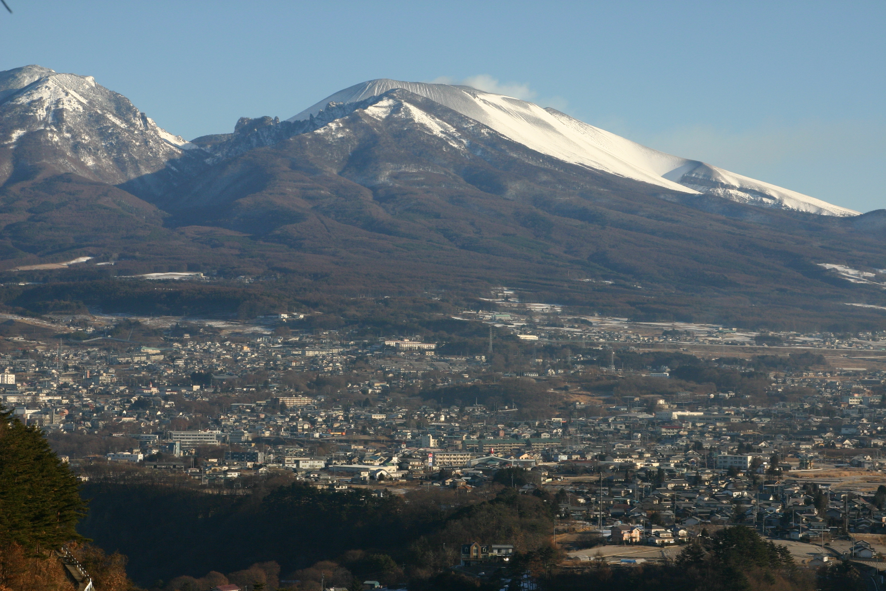 Mount Asama seen from the southwest.